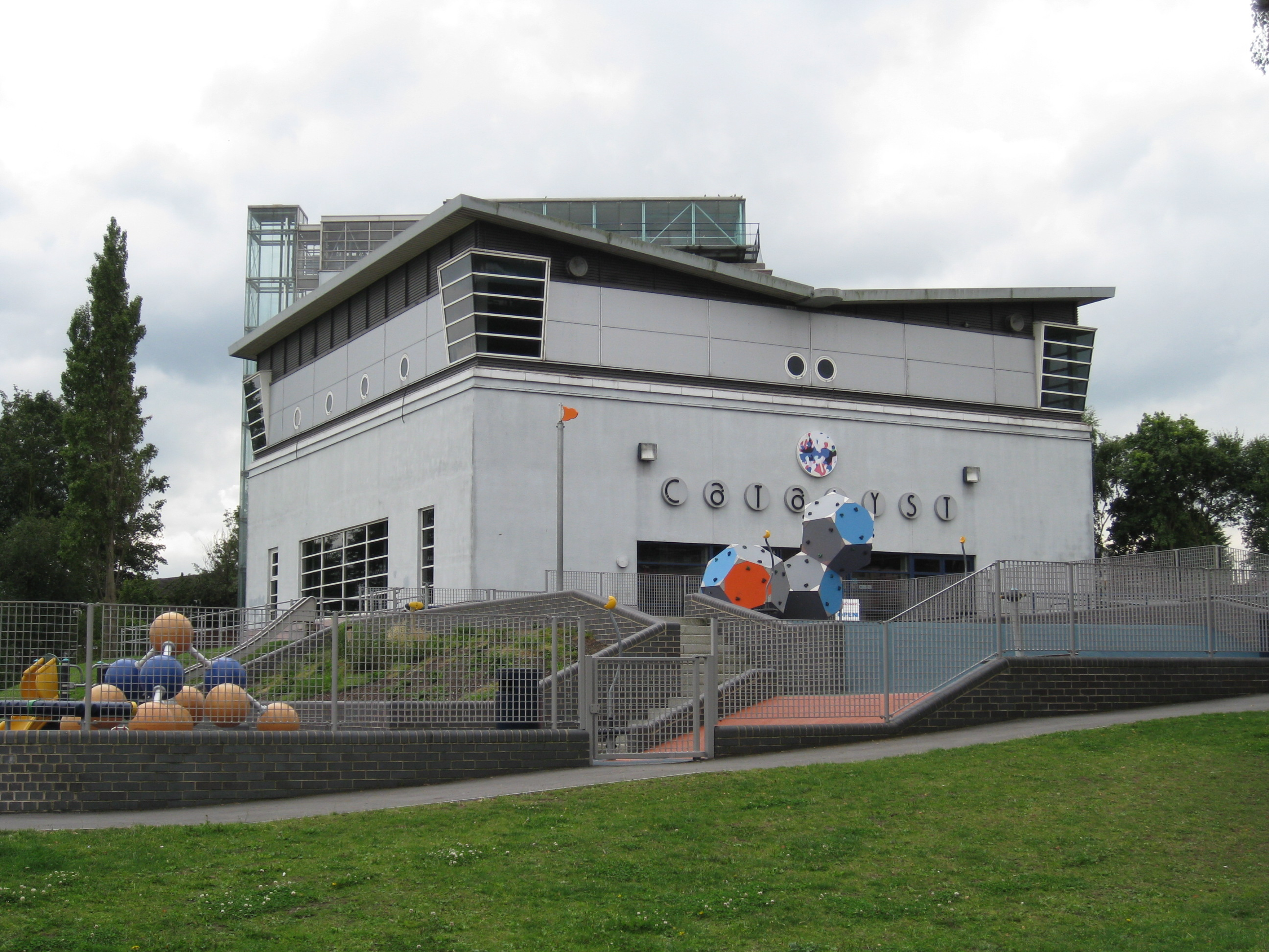 The Catalyst Museum of the Chemical Industry, Widnes, viewed from the front, with childrens' adventure playground (of chemical theme) in front.